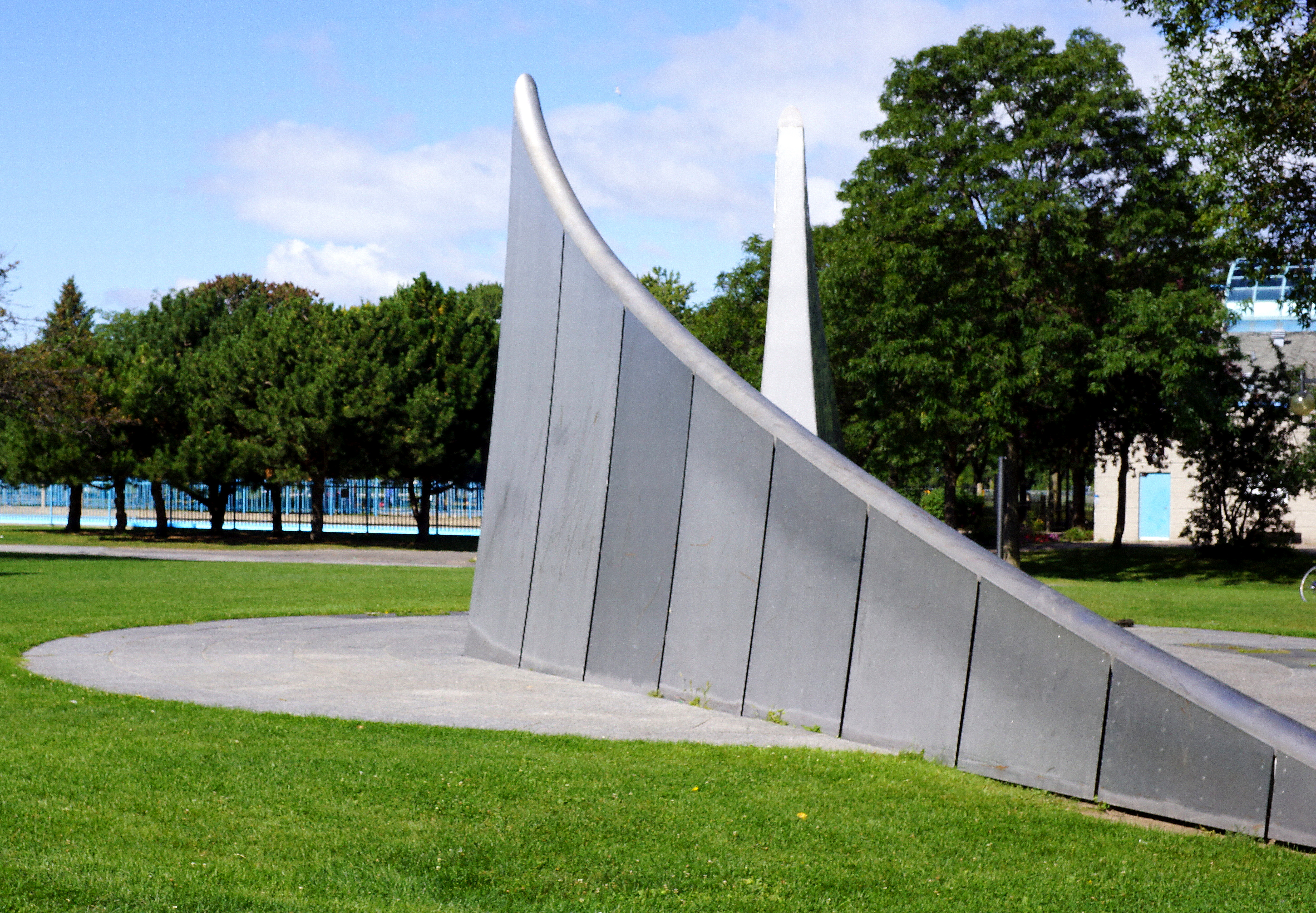 Caesura from Linda Covit, Jarry Park, Montreal, Quebec